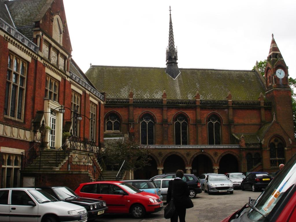 Chapel Quad of Highgate School in Highgate, London, England, UK. The "Big School" is on the left, and the chapel directly ahead.